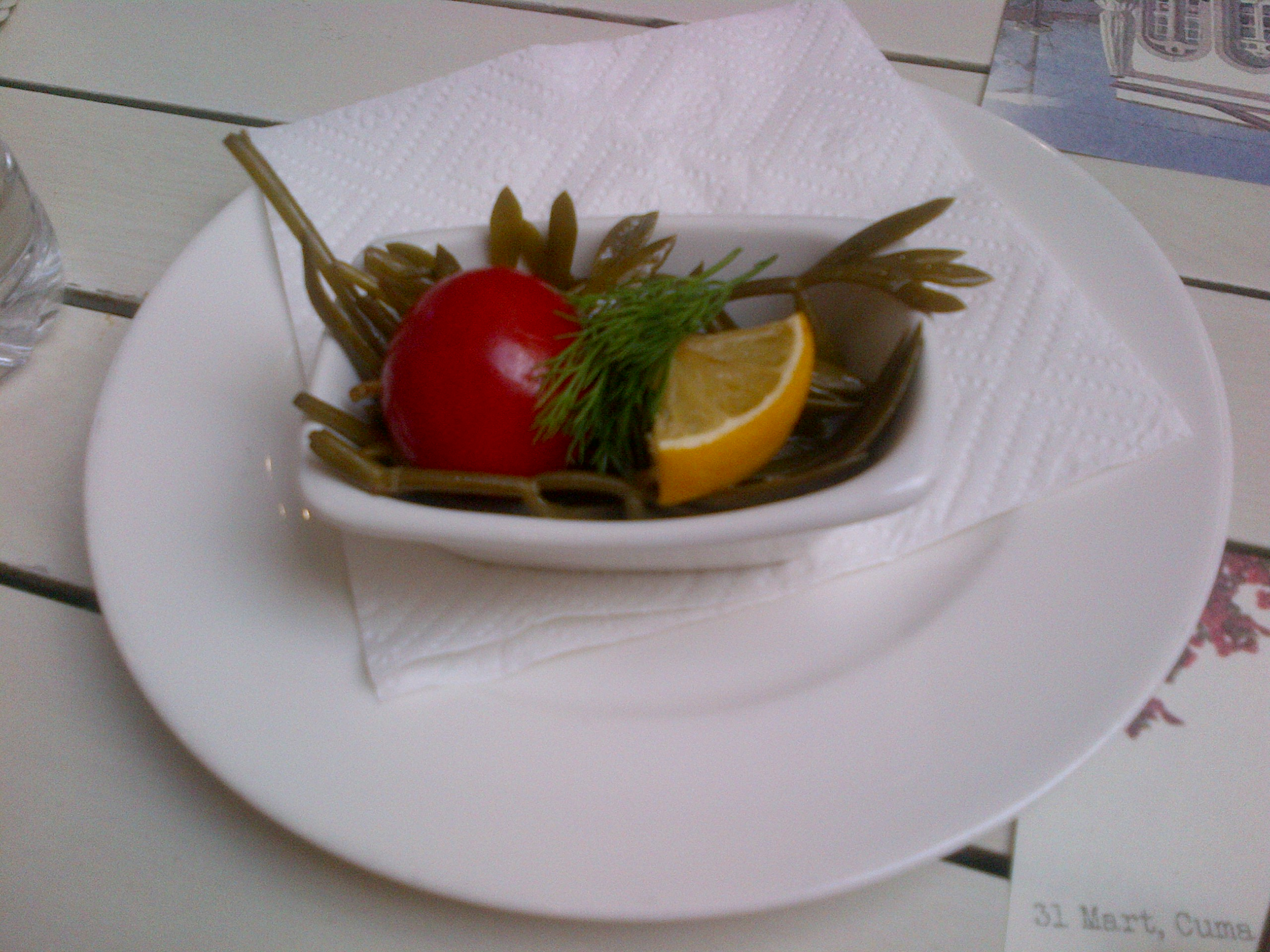 "Kayakoruğu turşusu" (Rock samphire "turshu") in Turkey.